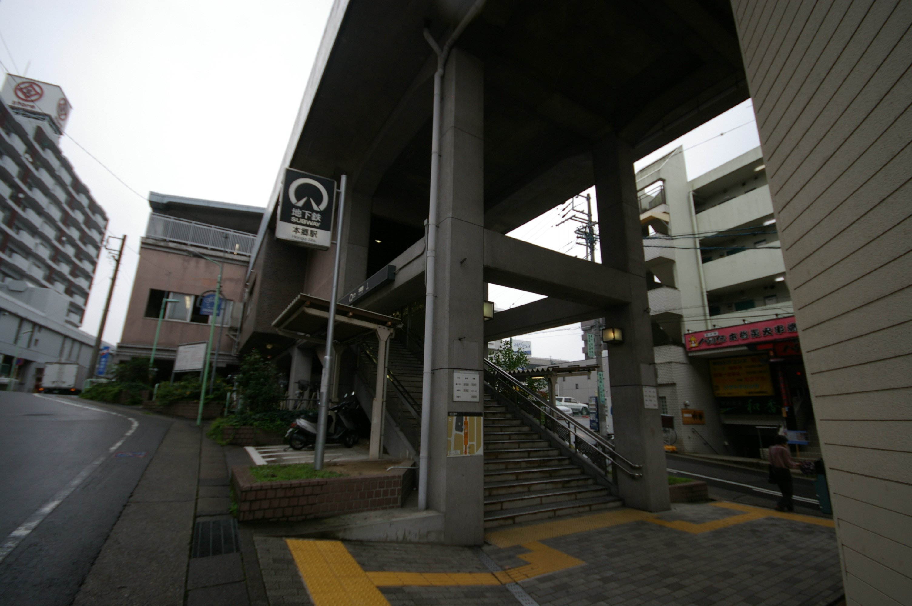 Nagoya Hongo subway station